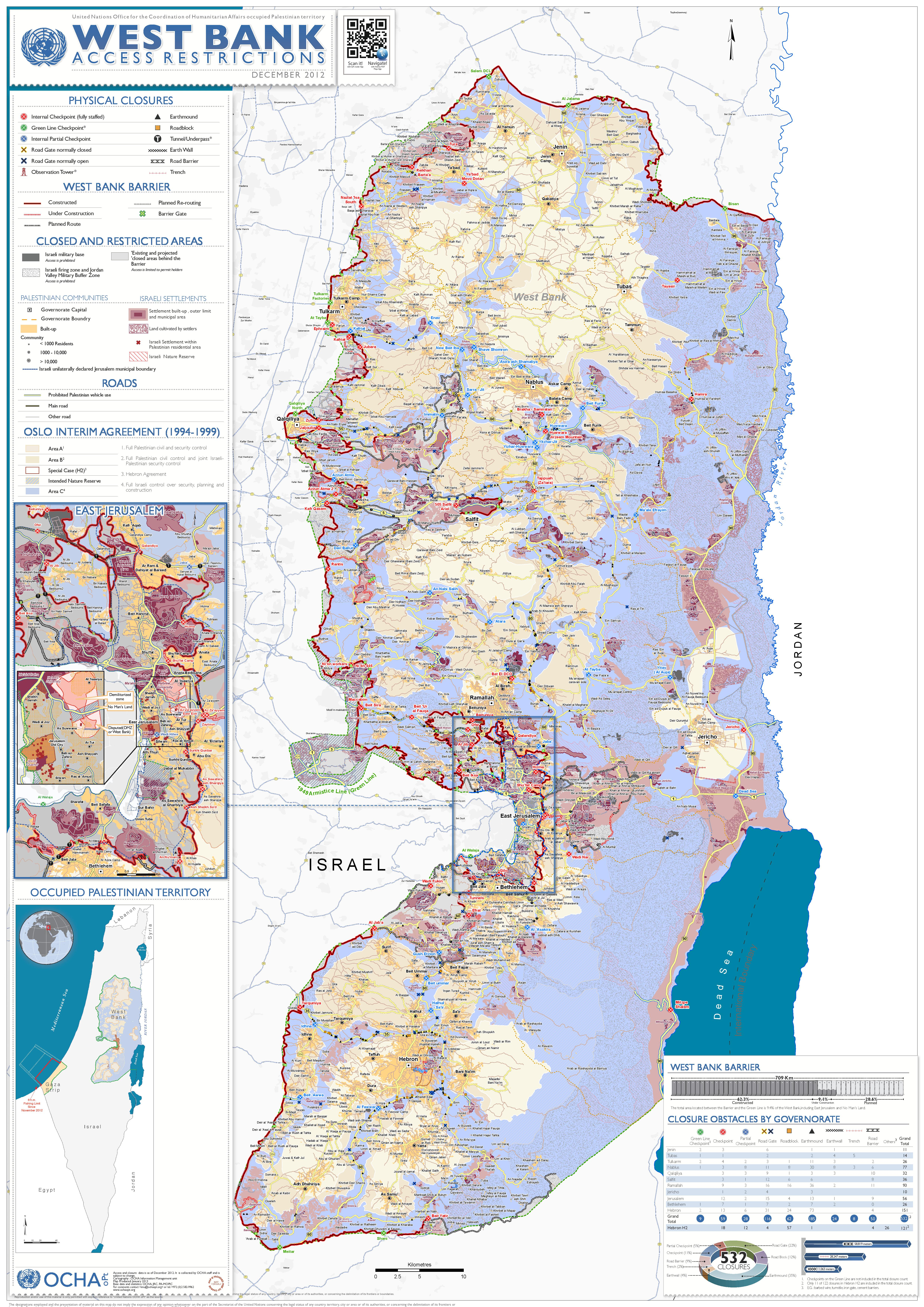 Access Restrictions Map of the West Bank